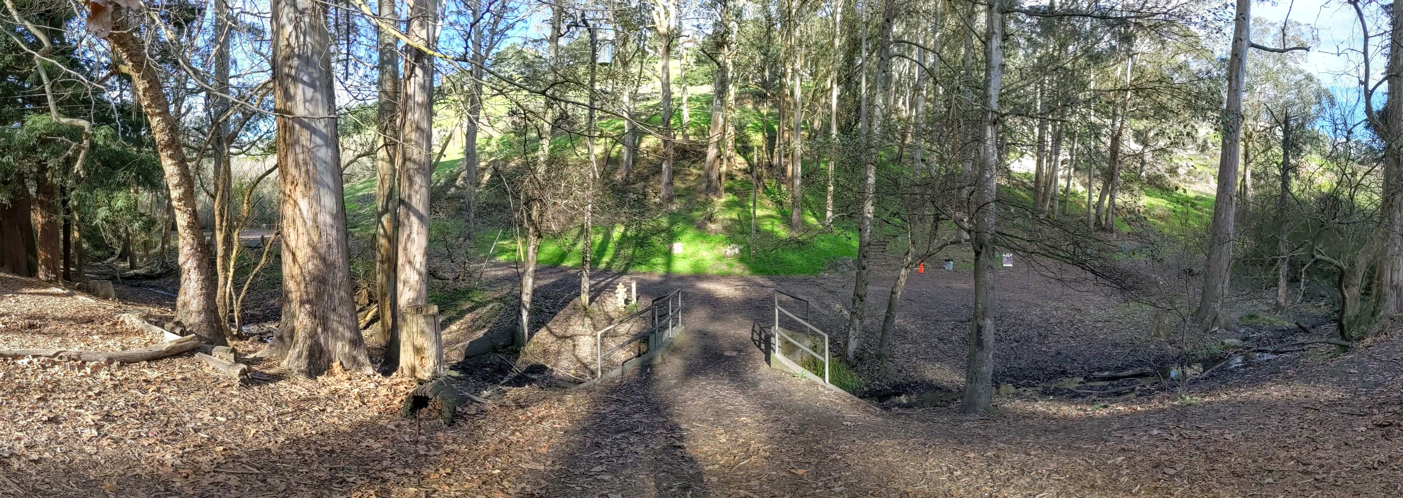 Pano view of Upper Islais Creek in Glen Canyon Park, San Francisco